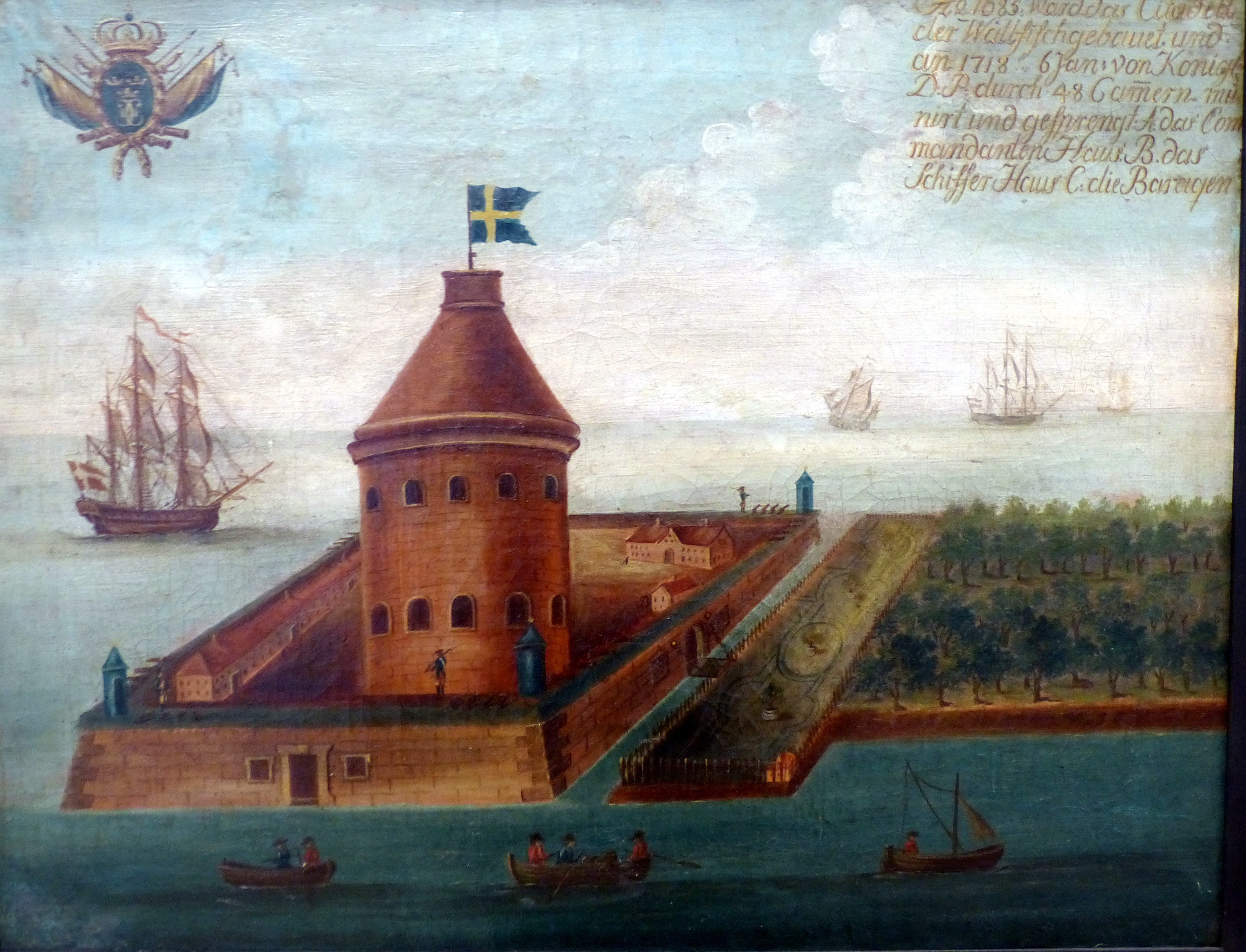 Güstrow ( Mecklenburg-Vorpommern ). Castle museum: Painting ( 18th century ) of the fortress at Walfisch island near Wismar, by J.P. Schröder.